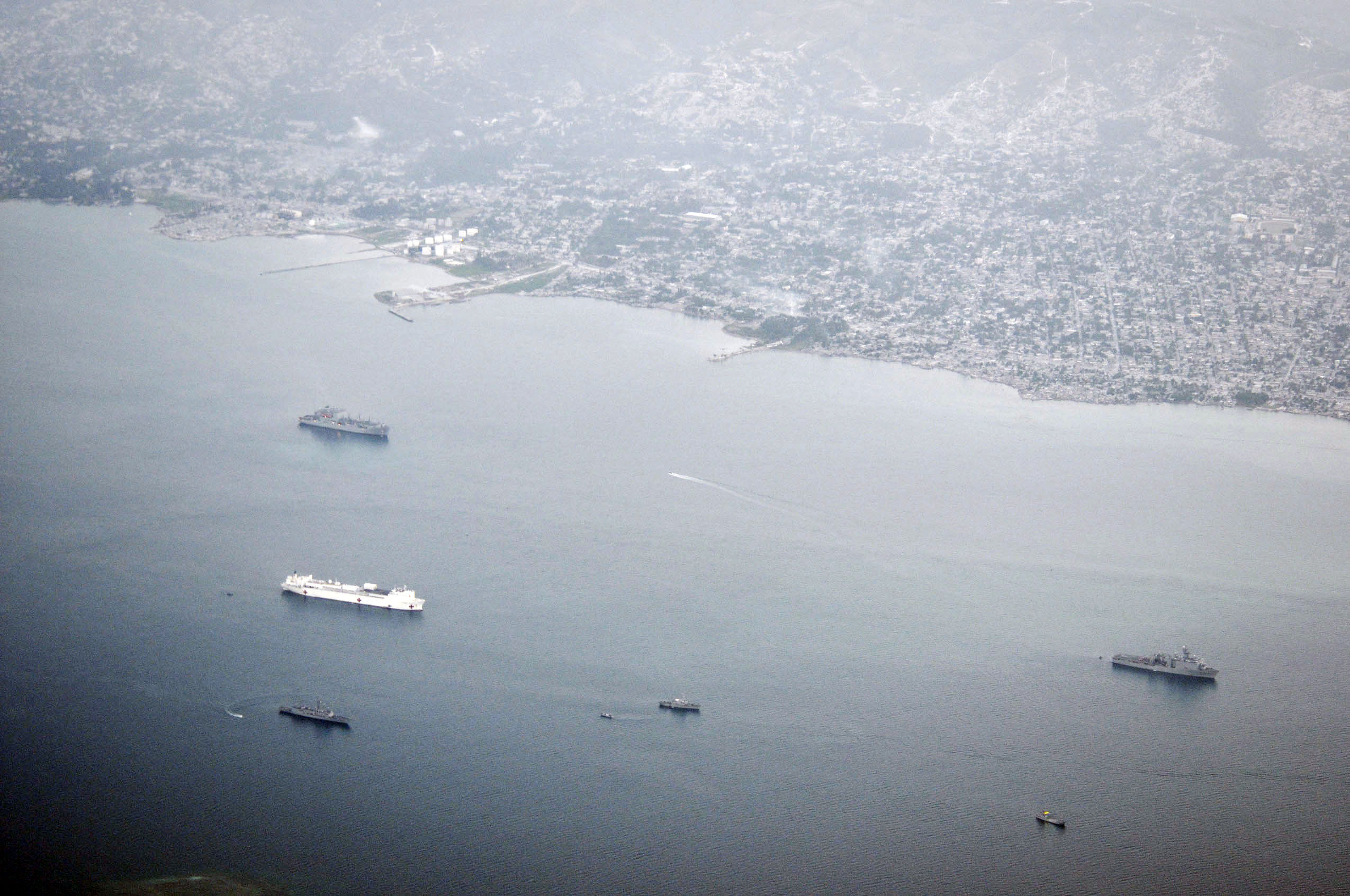 BAIE DE GRAND GOAVE, Haiti (Jan. 22, 2010) Several naval vessels are seen off the coast of Haiti from a U.S. Navy P-3C Orion aircraft during an aerial survey. Units from all branches of the U.S. military are conducting humanitarian and disaster relief operations as part of Operation Unified Response after a 7.0 magnitude earthquake caused severe damage in Haiti Jan. 12. (U.S. Navy photo by Mass Communication Specialist 2nd Class Gary Granger/Released)